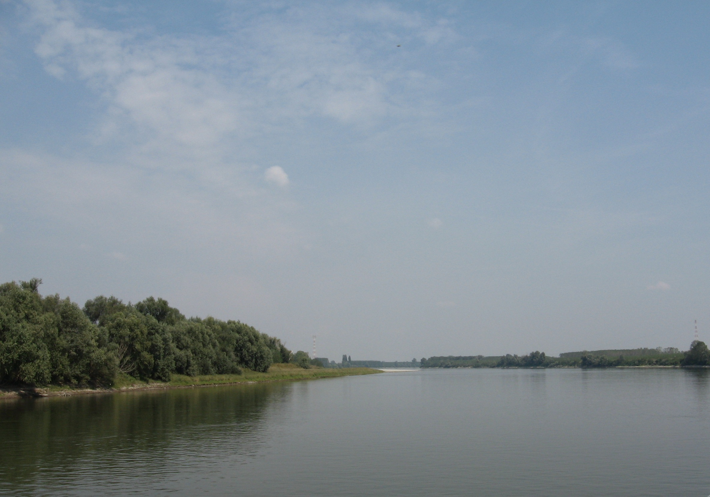 Po river from a boat